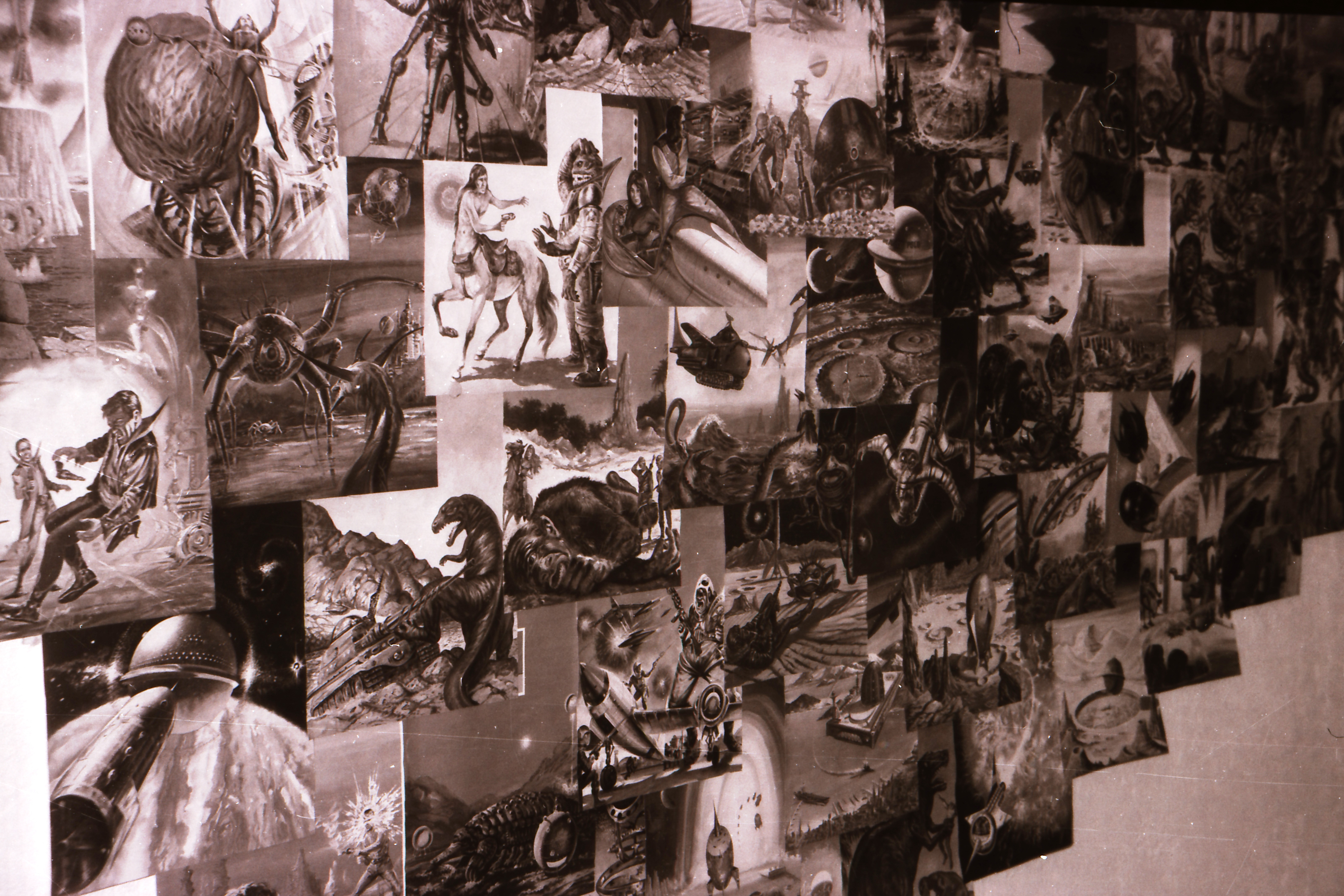 Collage Perry Rhodan